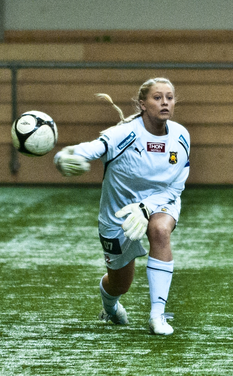 Silje Lofthus playing for Røa against LSK Kvinner November 6th 2010.